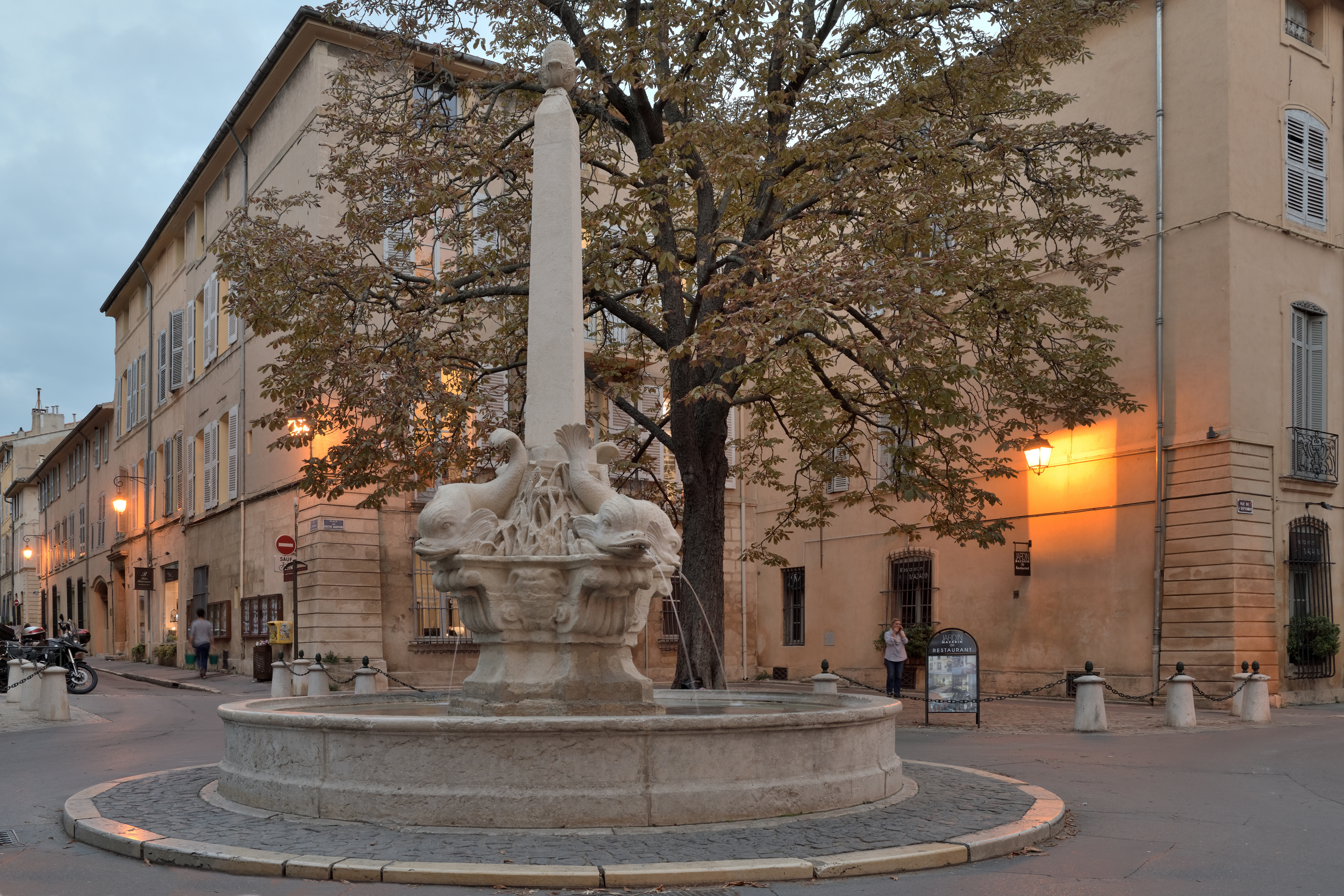 Fontaine-des-Quatre-Dauphins fountain and Place des-Quatre-Dauphins square in Aix-en-Provence.